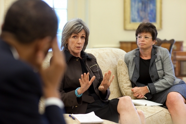 President Barack Obama is briefed by Carol Browner, assistant to the President for energy and climate change, on the response to the BP oil spill in the Gulf of Mexico, during a meeting in the Oval Office, June 1, 2010. Senior Advisor Valerie Jarrett is pictured at right. (Official White House Photo by Pete Souza)